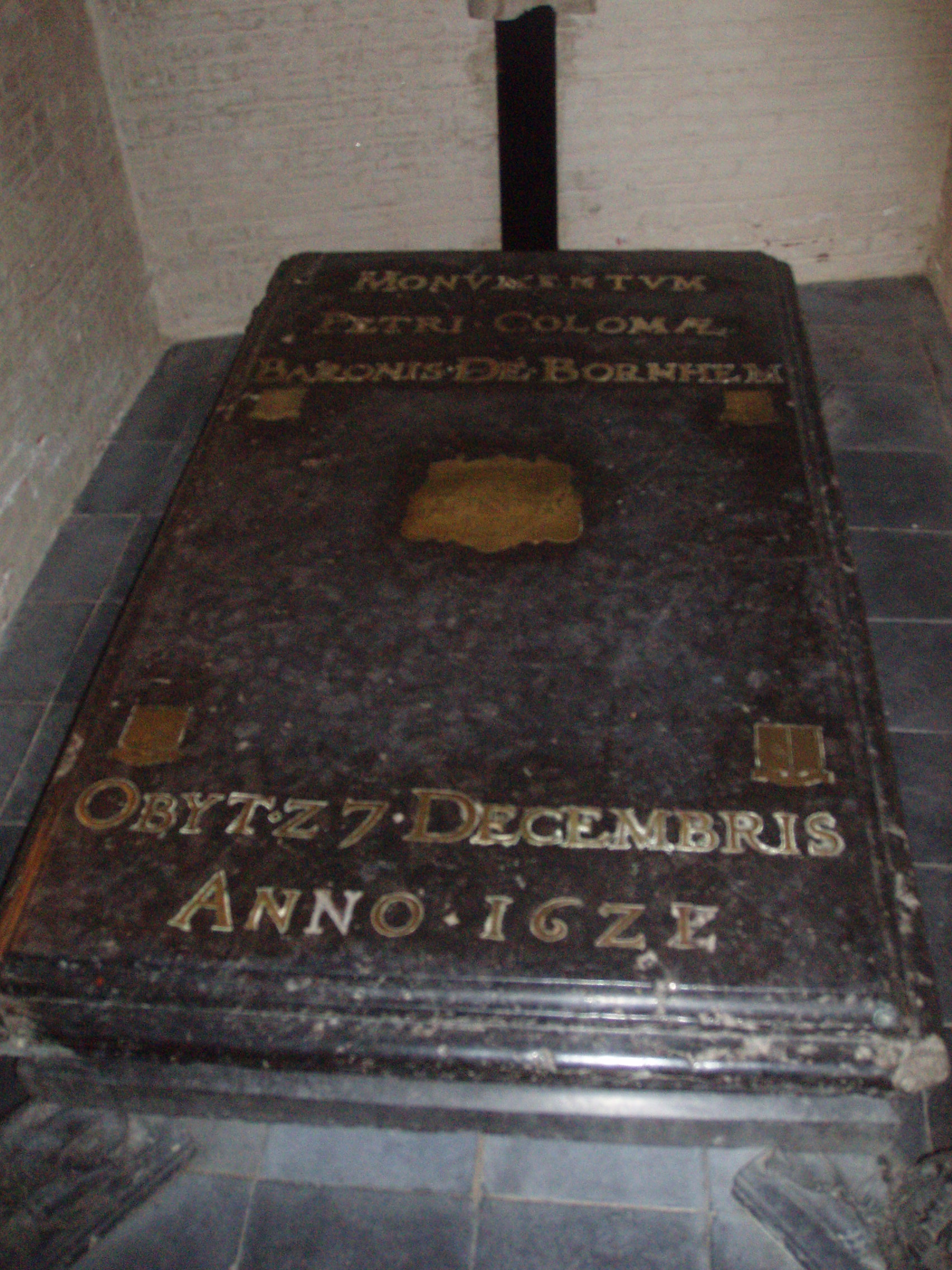 Bornem Onze-Lieve-Vrouw en Sint-Leodegariuskerk tomb don Pedro I Coloma, Baron of Bornhem